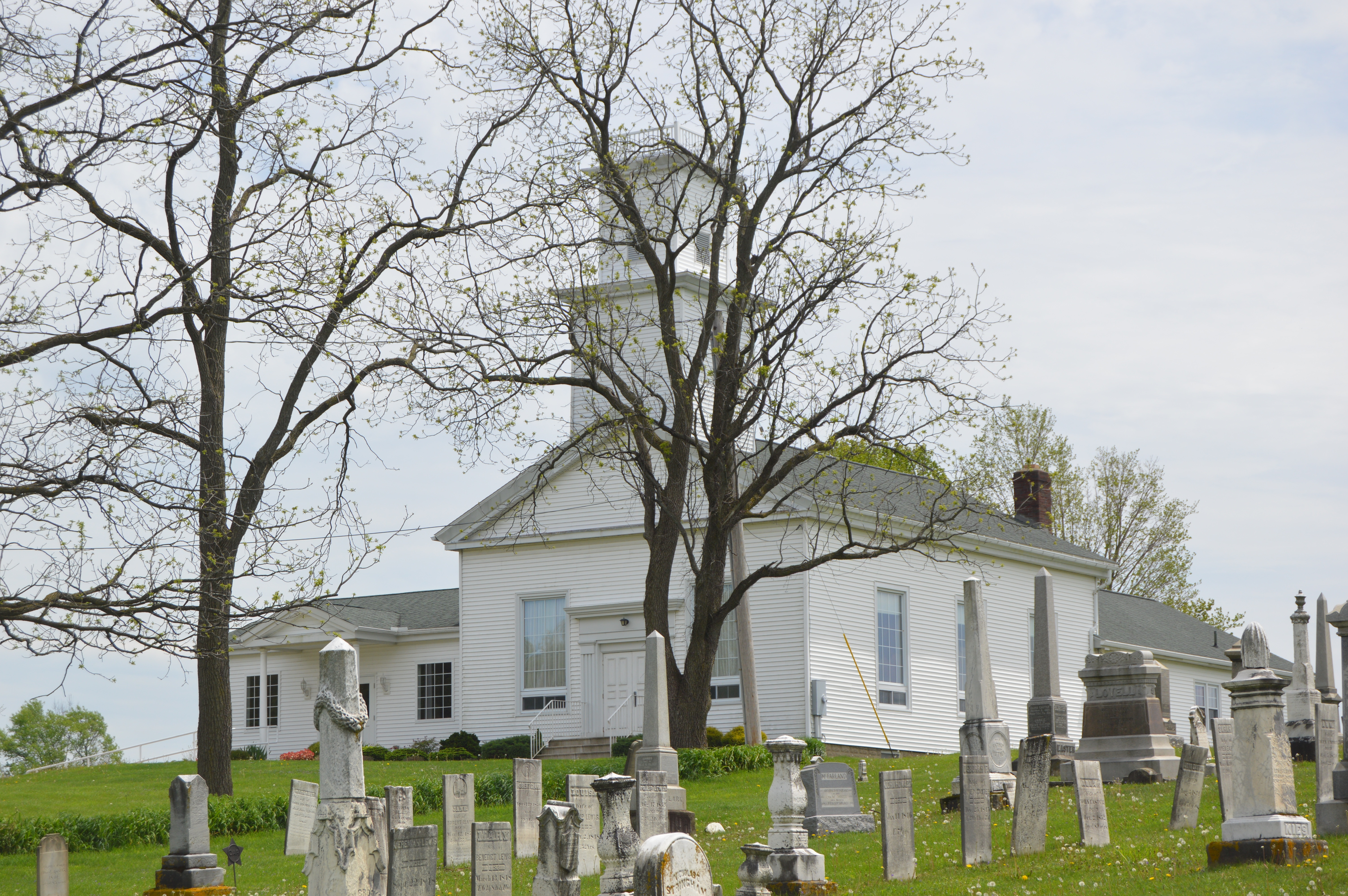 Front of the Church of the Master (originally a Freewill Baptist church), located at 2643 State Route 162 at Steuben in Greenfield Township, Huron County, Ohio, United States. It was built in 1843.